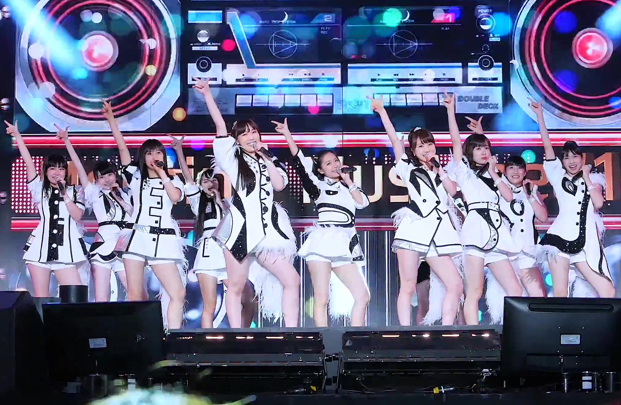 161006 AMN 빅 콘서트 - 모닝구무스메 16 우타카타 새터데이나이트 직캠